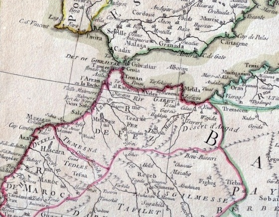 Map showing the location of the Kingdom of Fez within the Kingdom of Morocco.